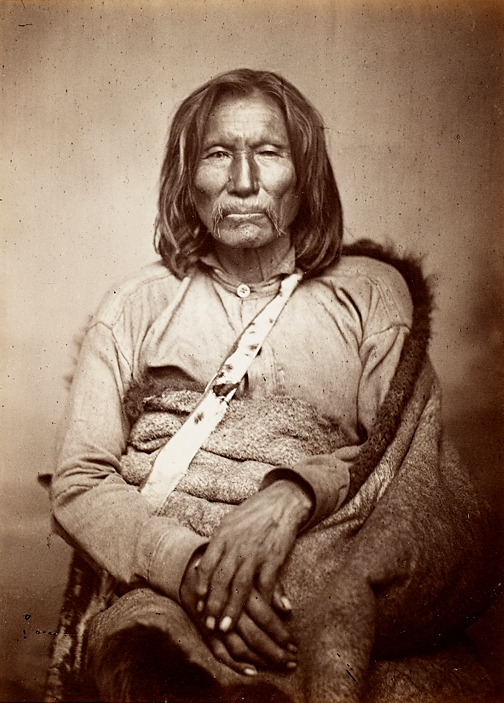 Portrait of Chief Setangya (Sitting Bear), Called Satank, Wearing Buffalo Robe, 1870.